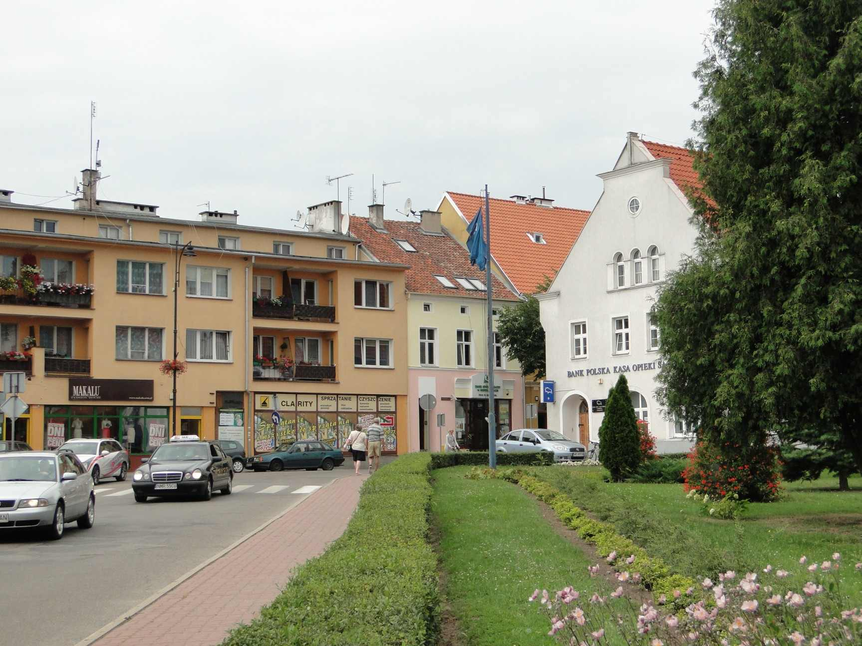 Kajki Square, Mrągowo, Poland. Kajki 1 (at right) is cultural heritage monument